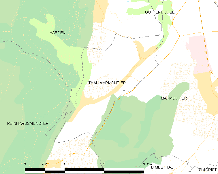 Map of French municipality